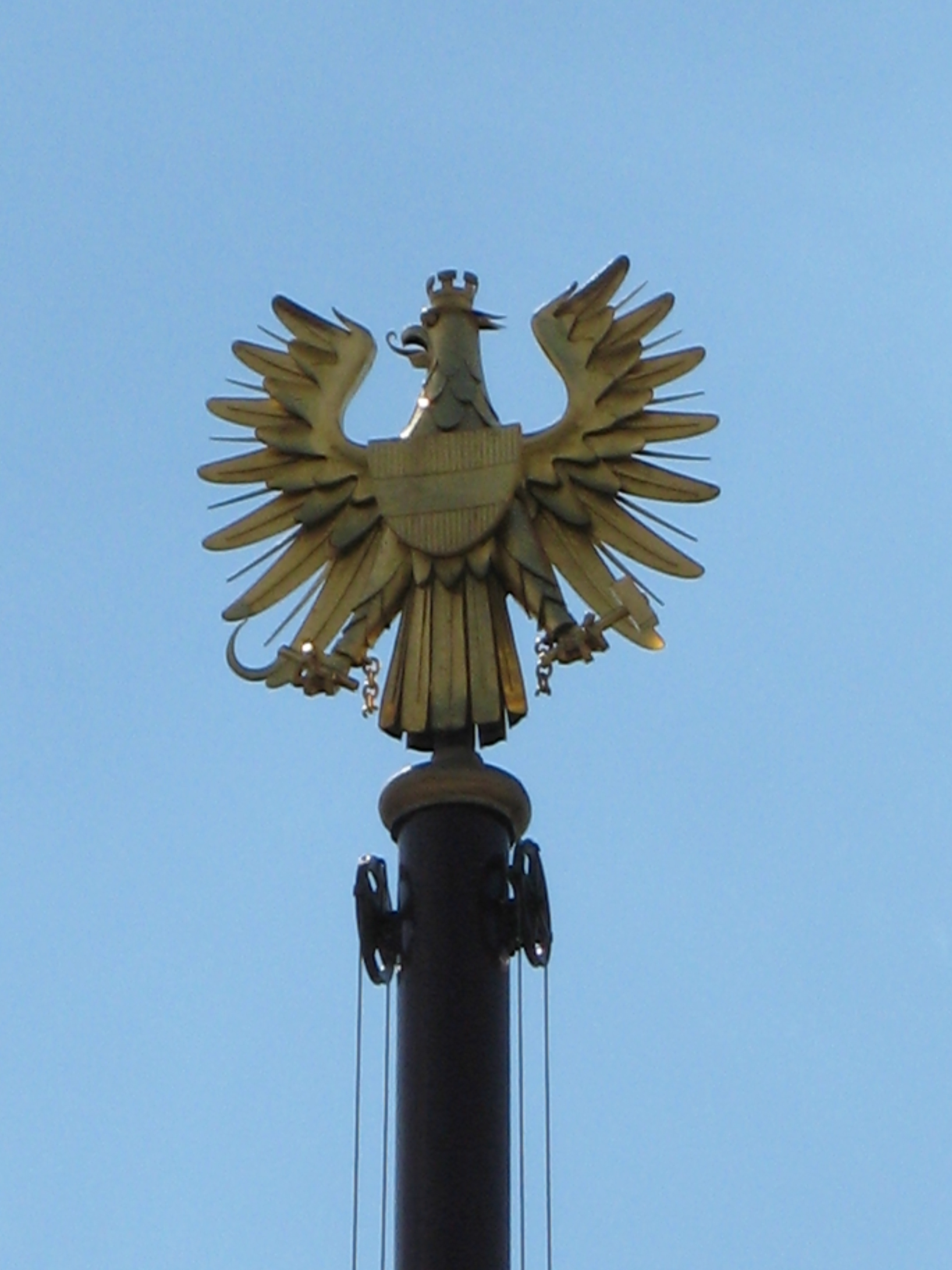 Austria, Vienna, Austrian Parliament Building